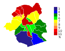 Indication of the rate of Dutch-speaking voters per municipality in the Brussels Capital Region, based on the fraction of the number of registered voters with an address in Dutch to the total number of registered voters for the municipal elections of the 14th of October 2018